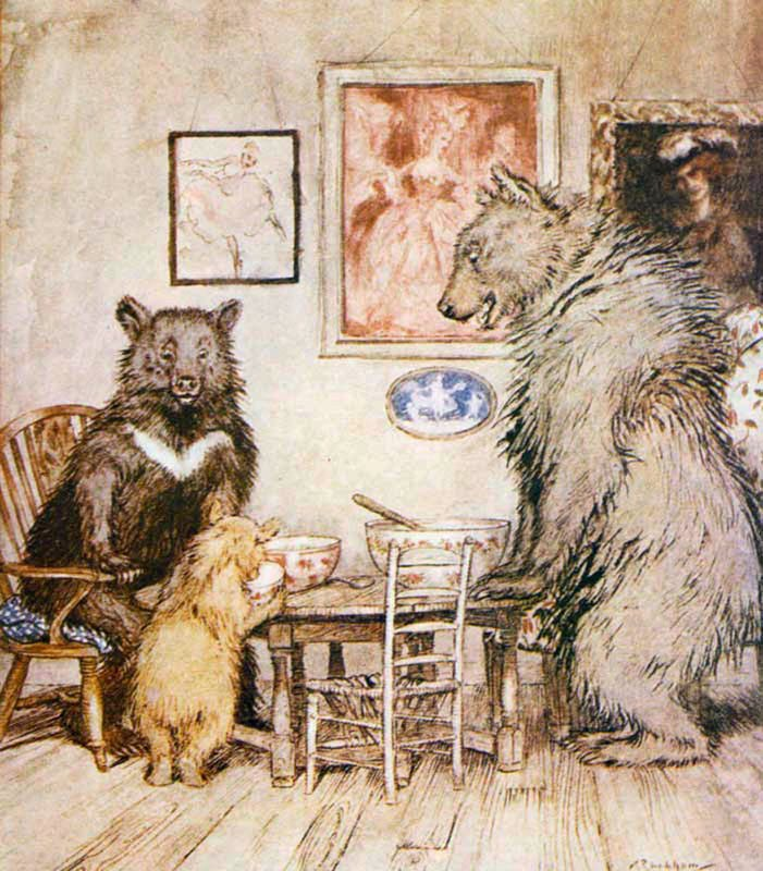 "”Somebody has been at my porridge, and has eaten it all up!”" From English Fairy Tales (1918) by Flora Annie Steel, illustrated by Arthur Rackham (link to page / title).